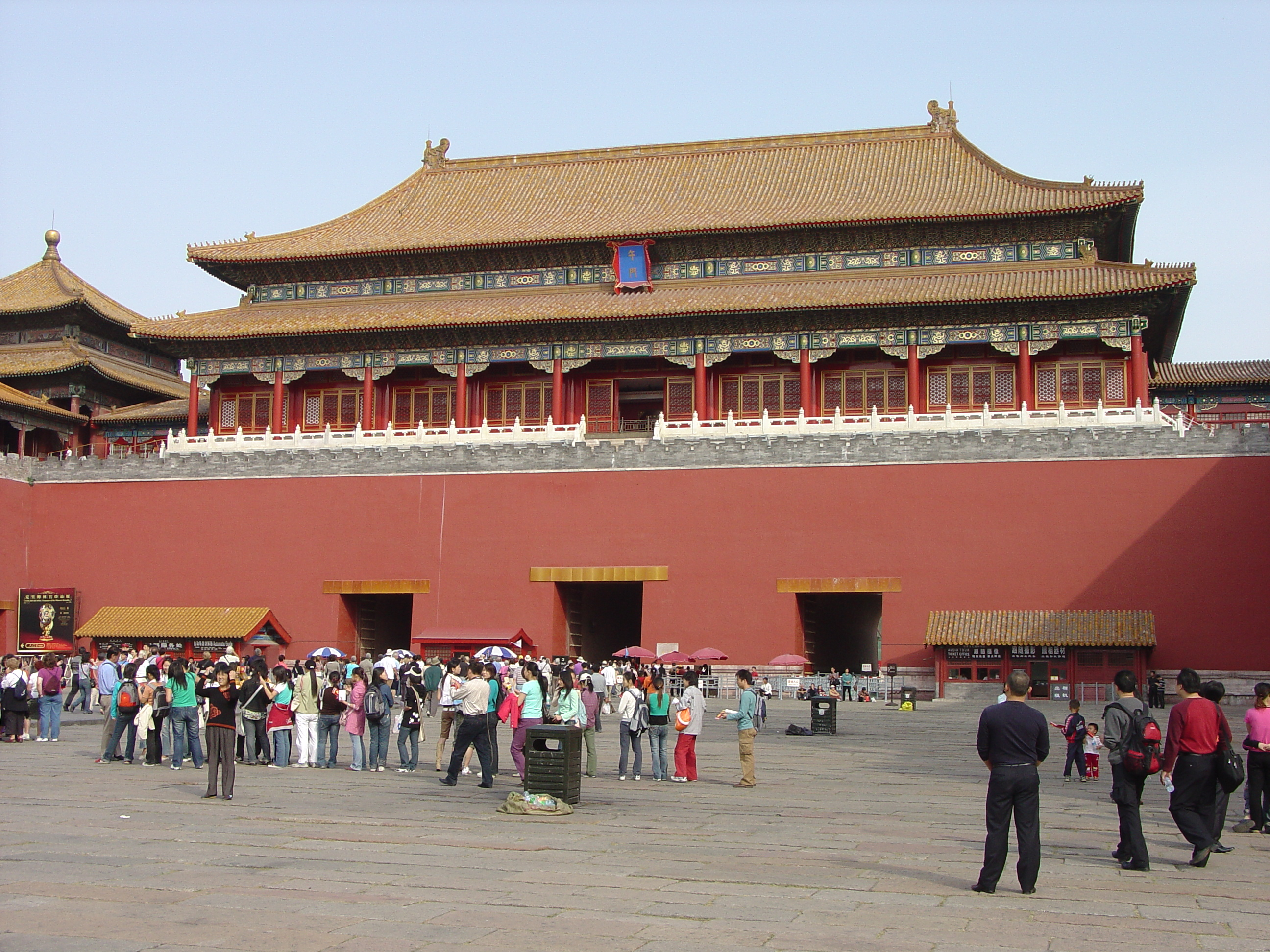 Meridian Gate (view N) Forbidden City, Beijing Also called the "Noon Gate," perhaps because of its location in the middle of the south wall where the sun is highest at noon, Wu Men is the principal entrance to the Forbidden City. The emperor would appear on the balcony when reviewing the army, and during the New Year's ceremony and other special events.